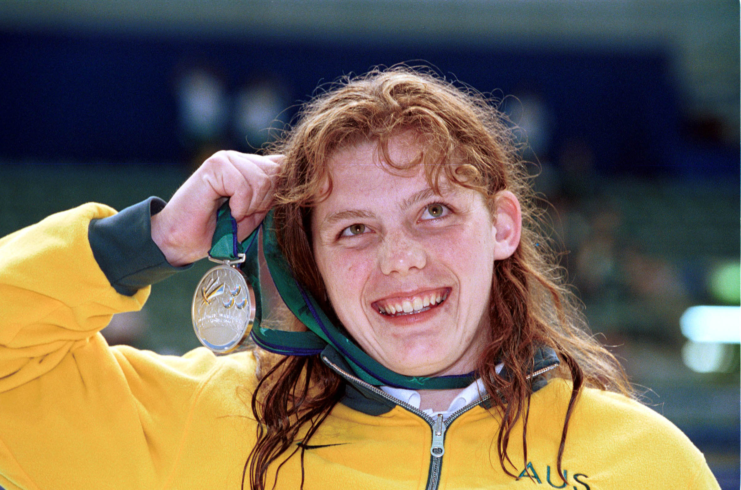 Australian swimmer Gemma Dashwood shows her silver medal won in the 200m medley SM10 eventon day 2 of the 2000 Sydney Paralympic Games